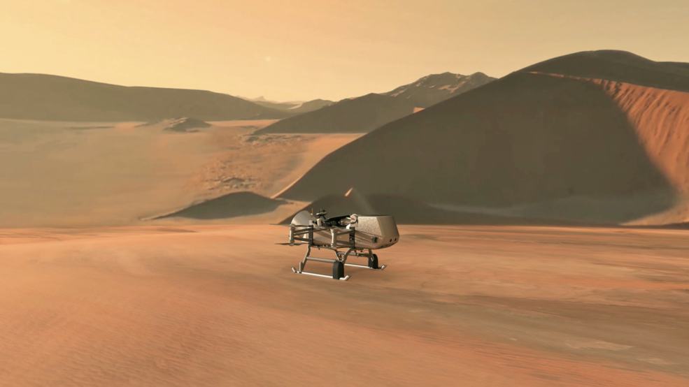 This illustration shows NASA’s Dragonfly rotorcraft-lander approaching a site on Saturn’s exotic moon, Titan. Taking advantage of Titan’s dense atmosphere and low gravity, Dragonfly will explore dozens of locations across the icy world, sampling and measuring the compositions of Titan's organic surface materials to characterize the habitability of Titan’s environment and investigate the progression of prebiotic chemistry. Credit: NASA/JHU-APL